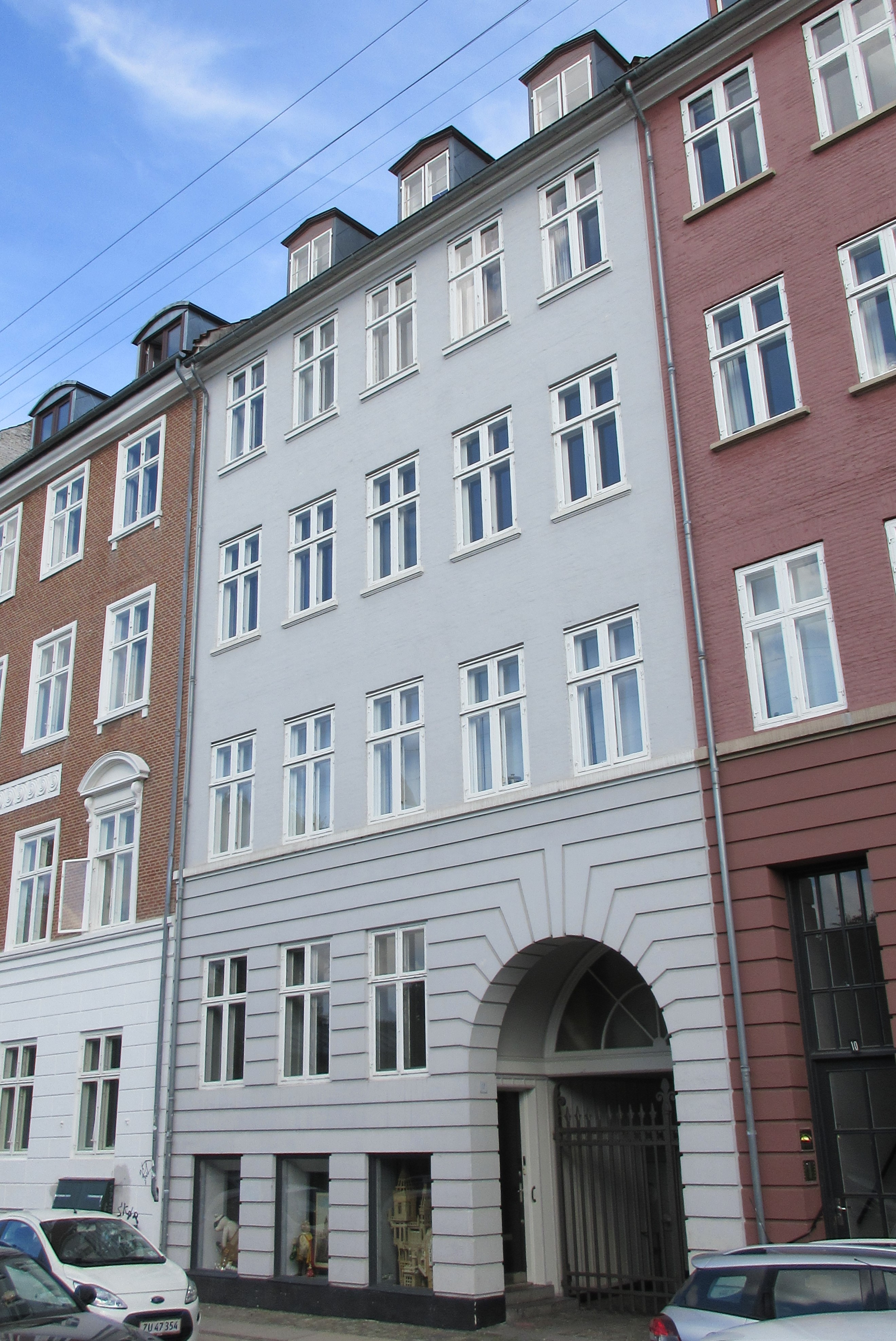 Kronprinsessegade 12 in Copenhagen, Denmark